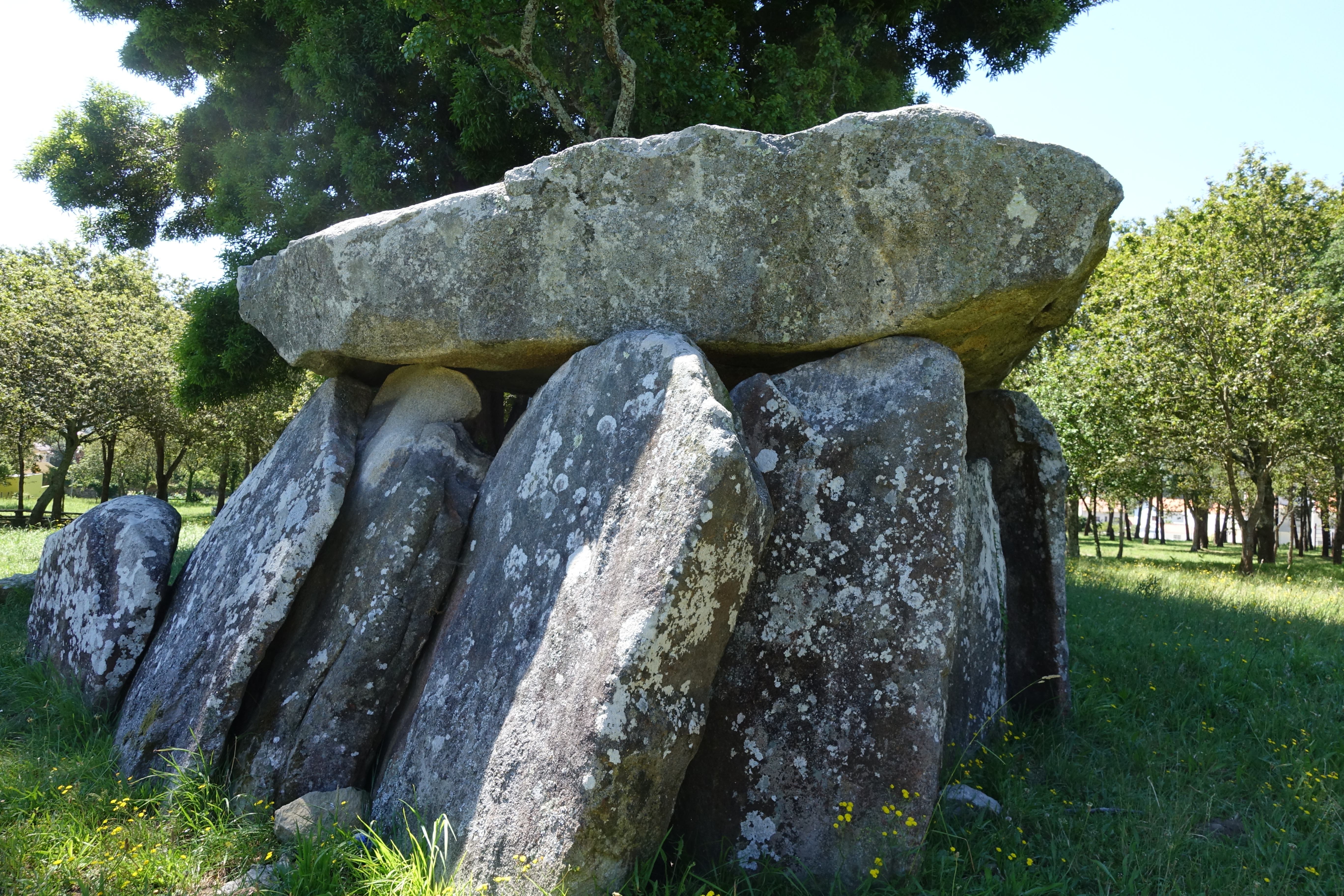 Dólmen da Barrosa, Caminha, Portugal.